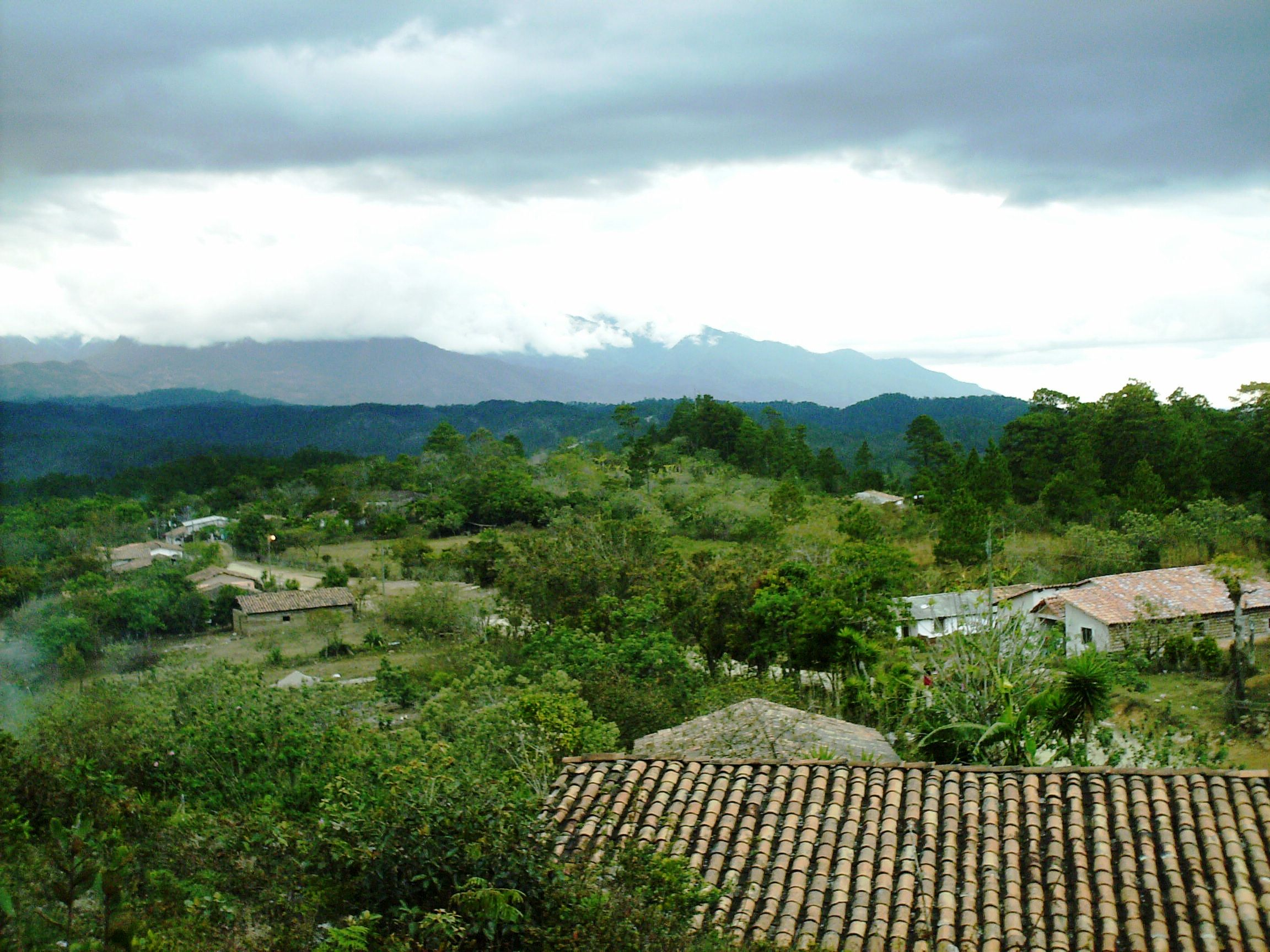 San Marcos de Caiquín, municipality in the Honduran department of Lempira.